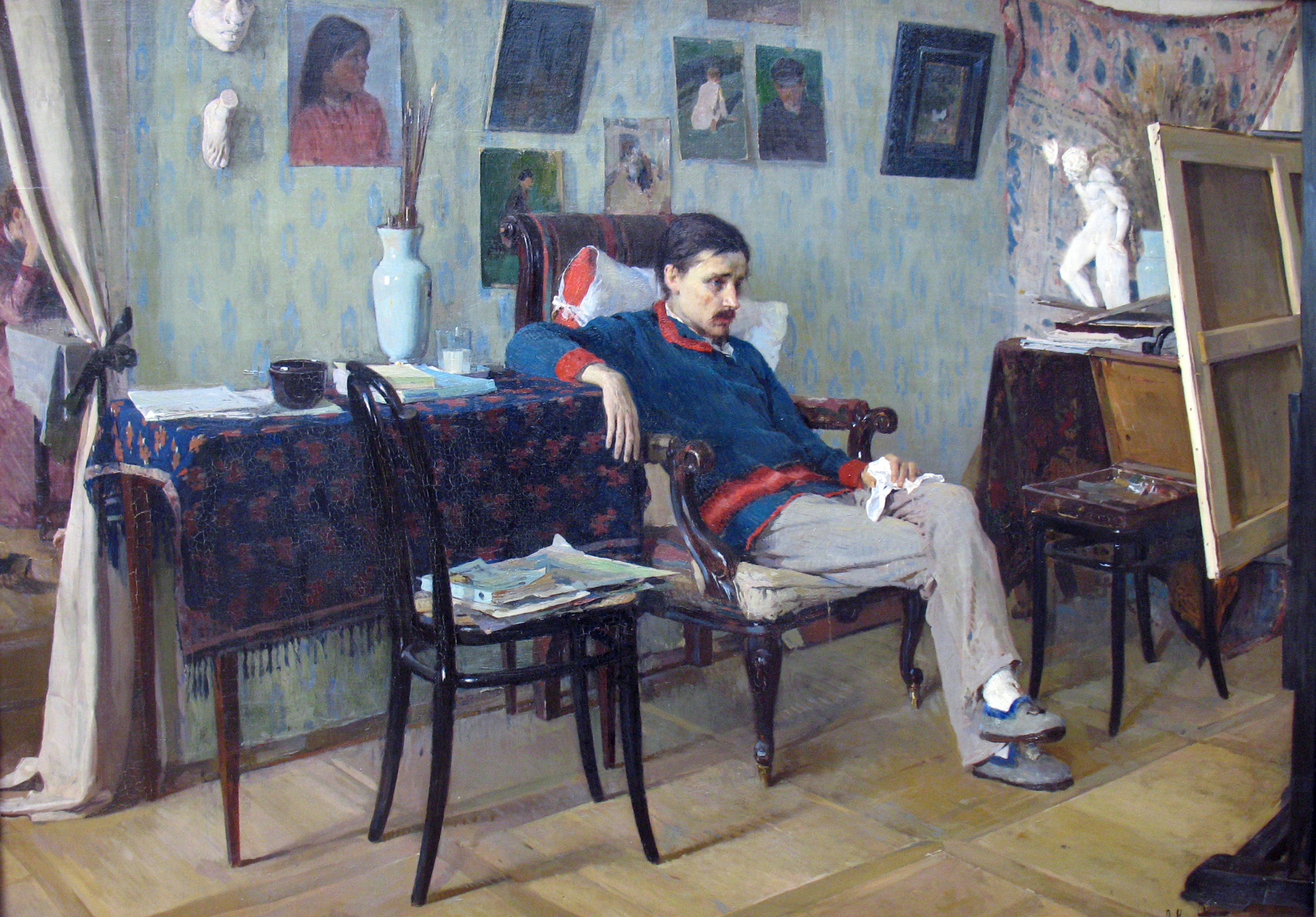 sick artist